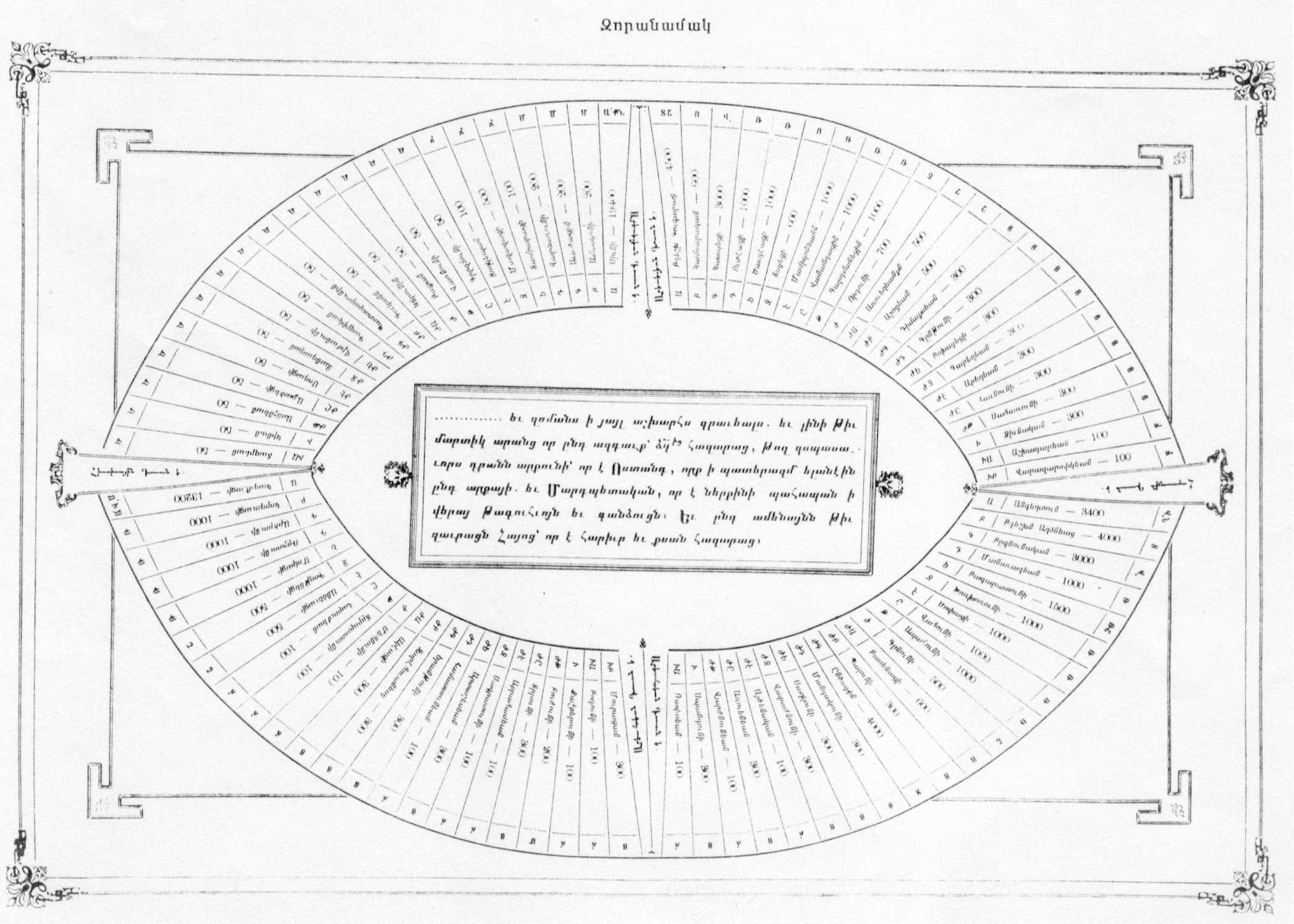 Zoranamak - the list of Armenian nobility in the 4th century